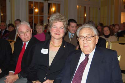 Gerald R. Ford Library and Museum Director Elaine Didier with former Secretary of State Henry Kissinger prior to Kissinger's October 24, 2006 talk in Grand Rapids, Michigan. Event: Lecture given by Dr. Henry Kissinger Location: Grand Rapids, Michigan Date: October 24, 2006 Credit: Courtesy Gerald R. Ford Library Rights Information: Public Domain (No usage fees, no permission required).